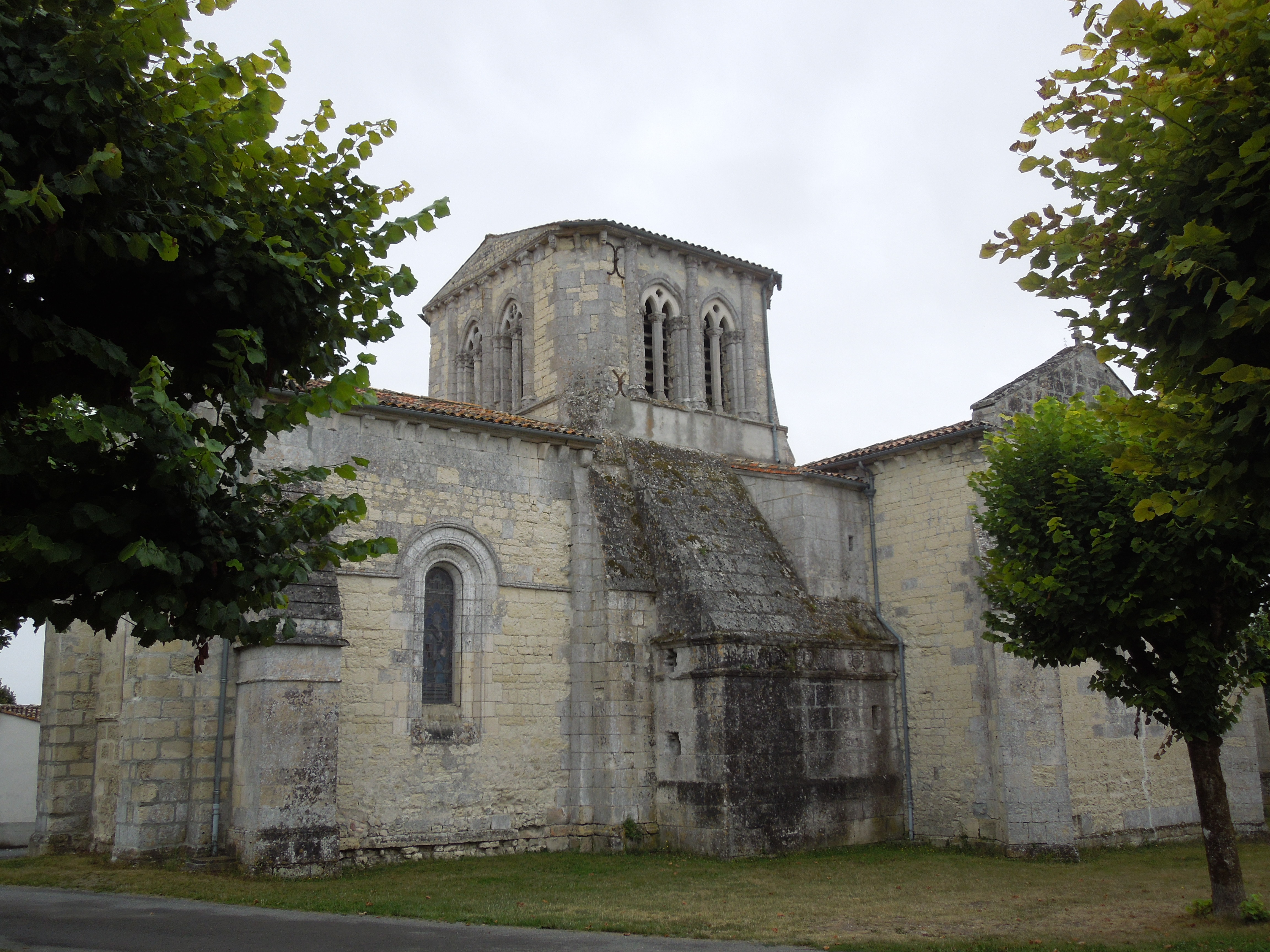 Germignac, church Saint-Pierre, view from northeast